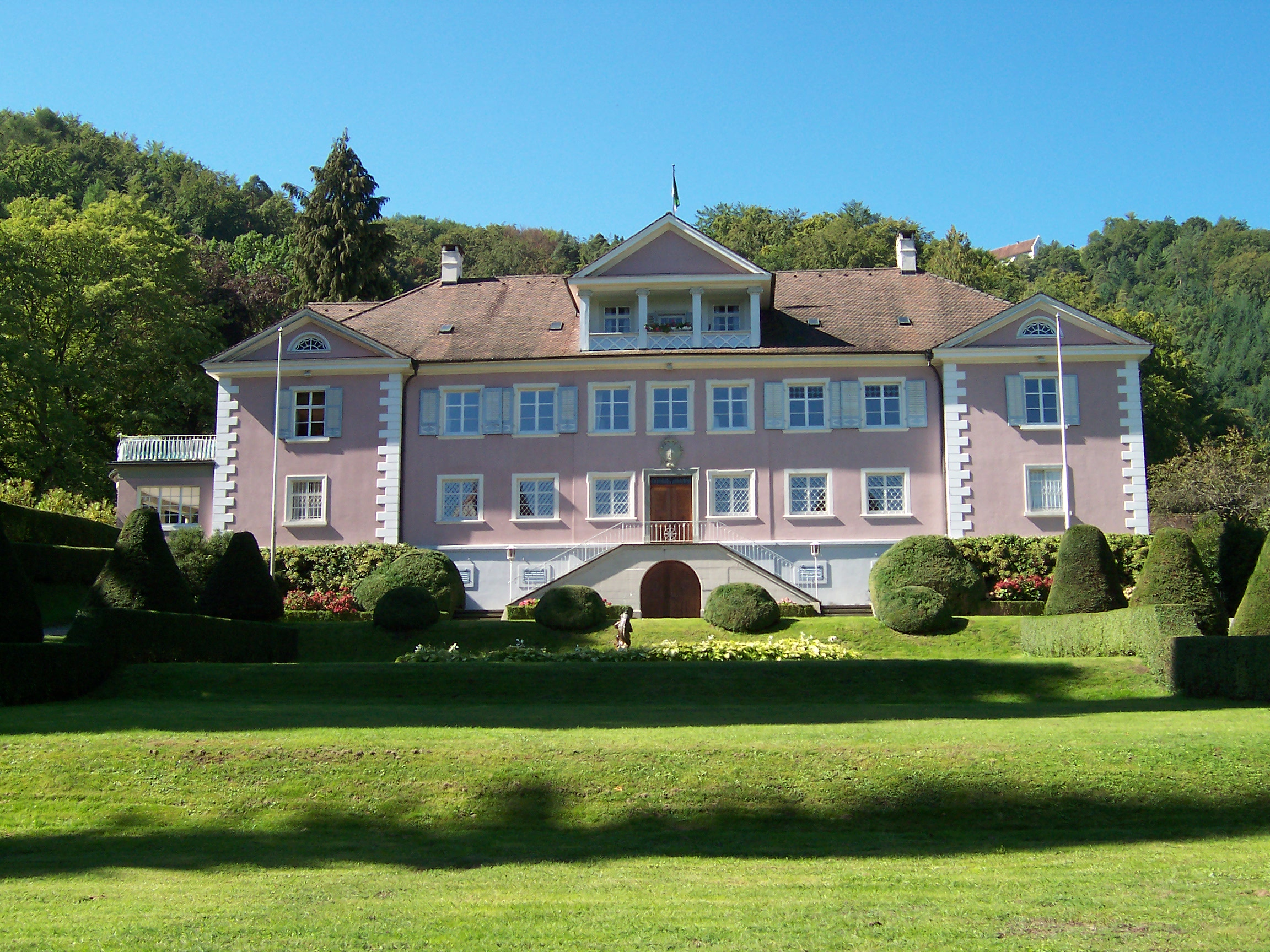 Gräfliches Schloss in Bodman